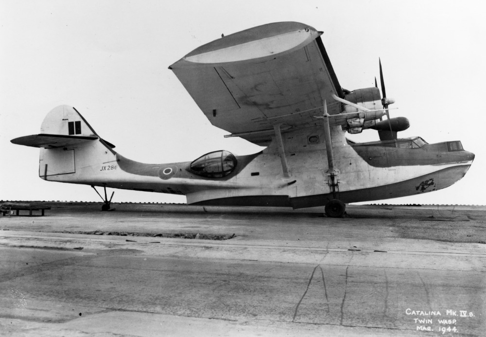 PictionID:41554611 - Title:Consolidated PB2B-1 [Boeing Canada Catalina Mk. IVb] JX286 Mar44 - Catalog:16_000583 - Filename:16_000583.tif - - - - - - Image from the Ray Wagner Collection. Ray Wagner was Archivist at the San Diego Air and Space Museum for several years and is an author of several books on aviation --- ---Please Tag these images so that the information can be permanently stored with the digital file.---Repository: San Diego Air and Space Museum